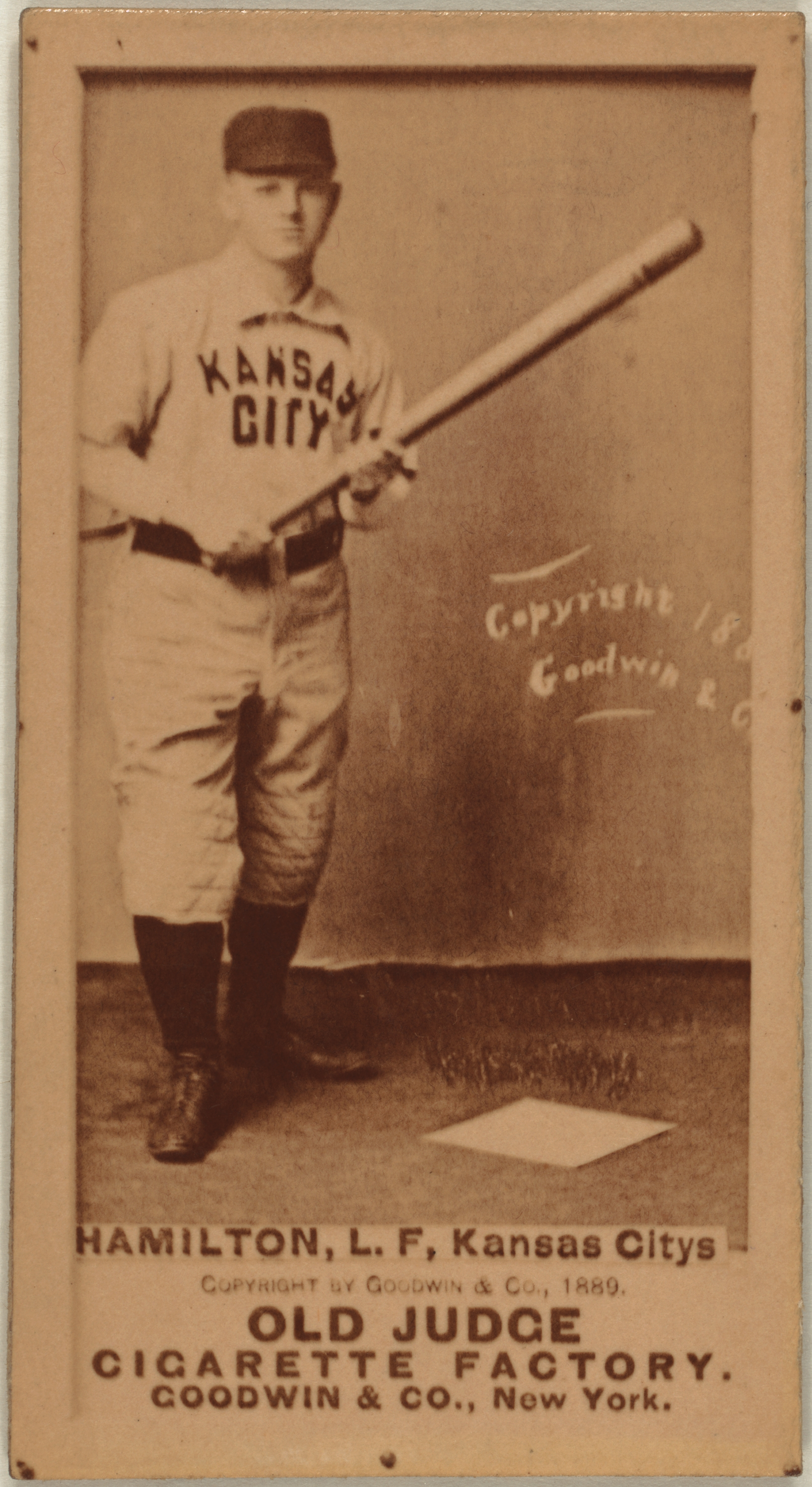 Billy Hamilton